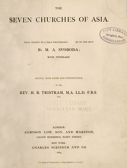 The seven churches of Asia 1869 - title page